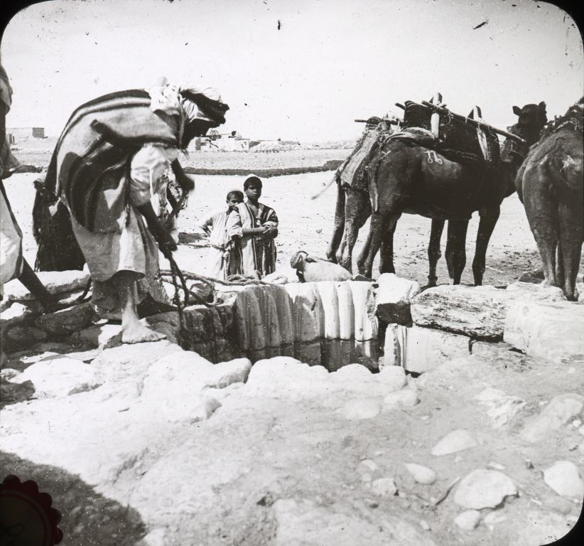 from historic lecture booklet: "Beer-Sheba (the wall of seven) is the name of one of the oldest towns in Palestine. It is the most southern city of Palestine. Here are found seven wells, two large ones and five smaller ones called Abraham's wells. Perhaps no other name is better known in Palestine than is Beer-Sheba. It was first assigned to Judah and after-wards to Simeon (Josh. 15:28, 19;2) On the return from Exile, Beer-Sheba was again peopled by Jews. In Roman times Beer-Sheba was a very large village with a garrison. It was the seat of a bishopric in the early Christian times before the country was conquered by the Muslims." Original Format: Lantern slides Original Collection: Visual Instruction Department Lantern Slides Item Number: P217:set 010 002 Restrictions: Permission to use must be obtained from the OSU Archives. Click here to view The Best of the Archives. Click here to view Oregon State University's other digital collections. We're happy for you to share this digital image within the spirit of The Commons; however, certain restrictions on high quality reproductions of the original physical version may apply. To read more about what “no known restrictions” means, please visit the OSU Archives website.